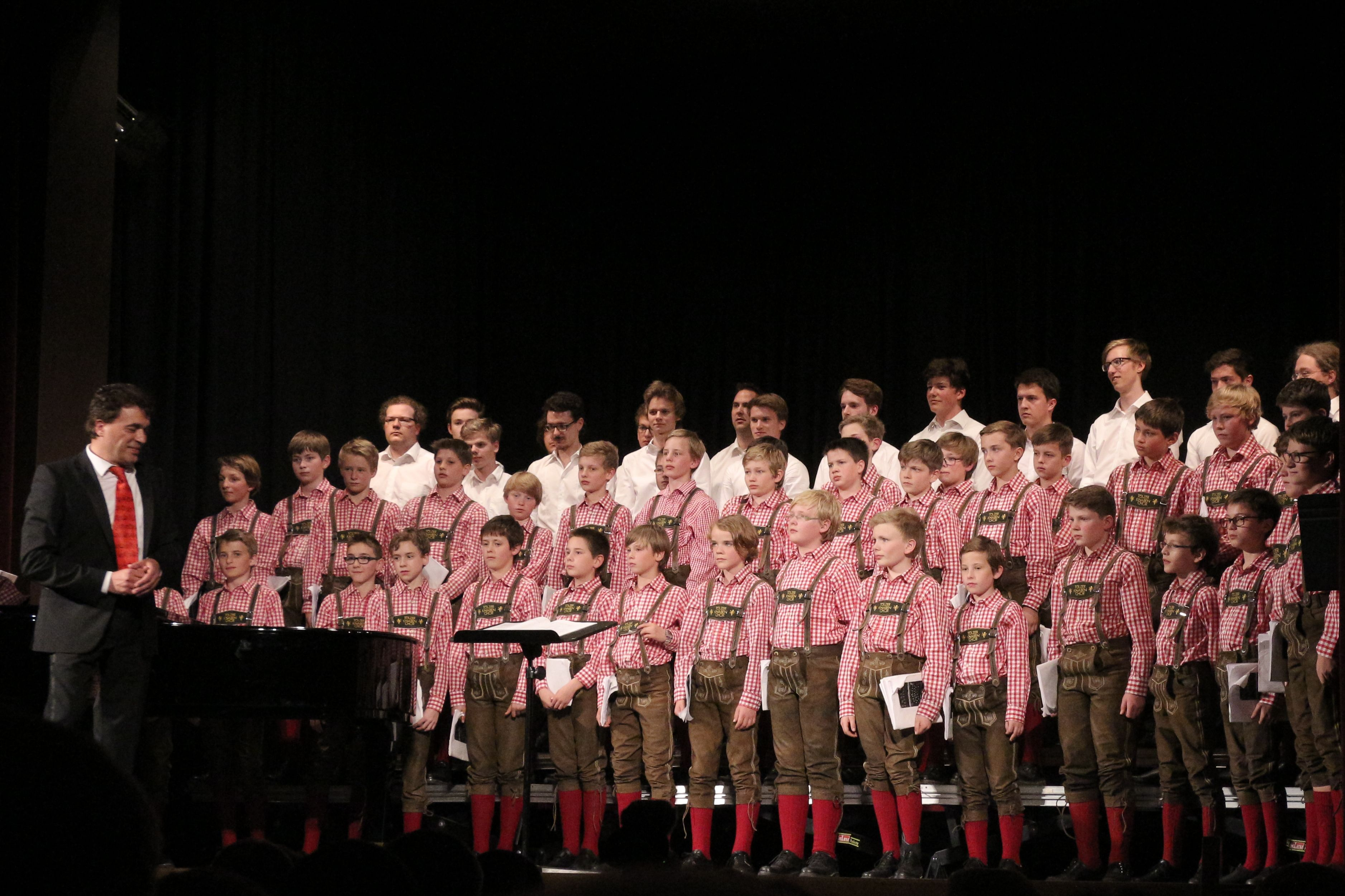 Tölz Boys' Choir